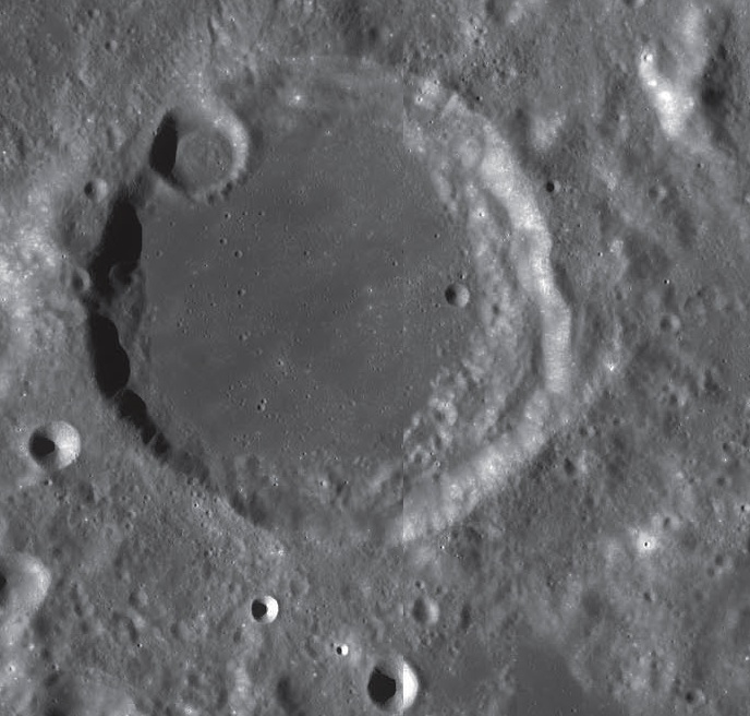 Condorcet crater - combination of images from charts LAC-62, LAC-63